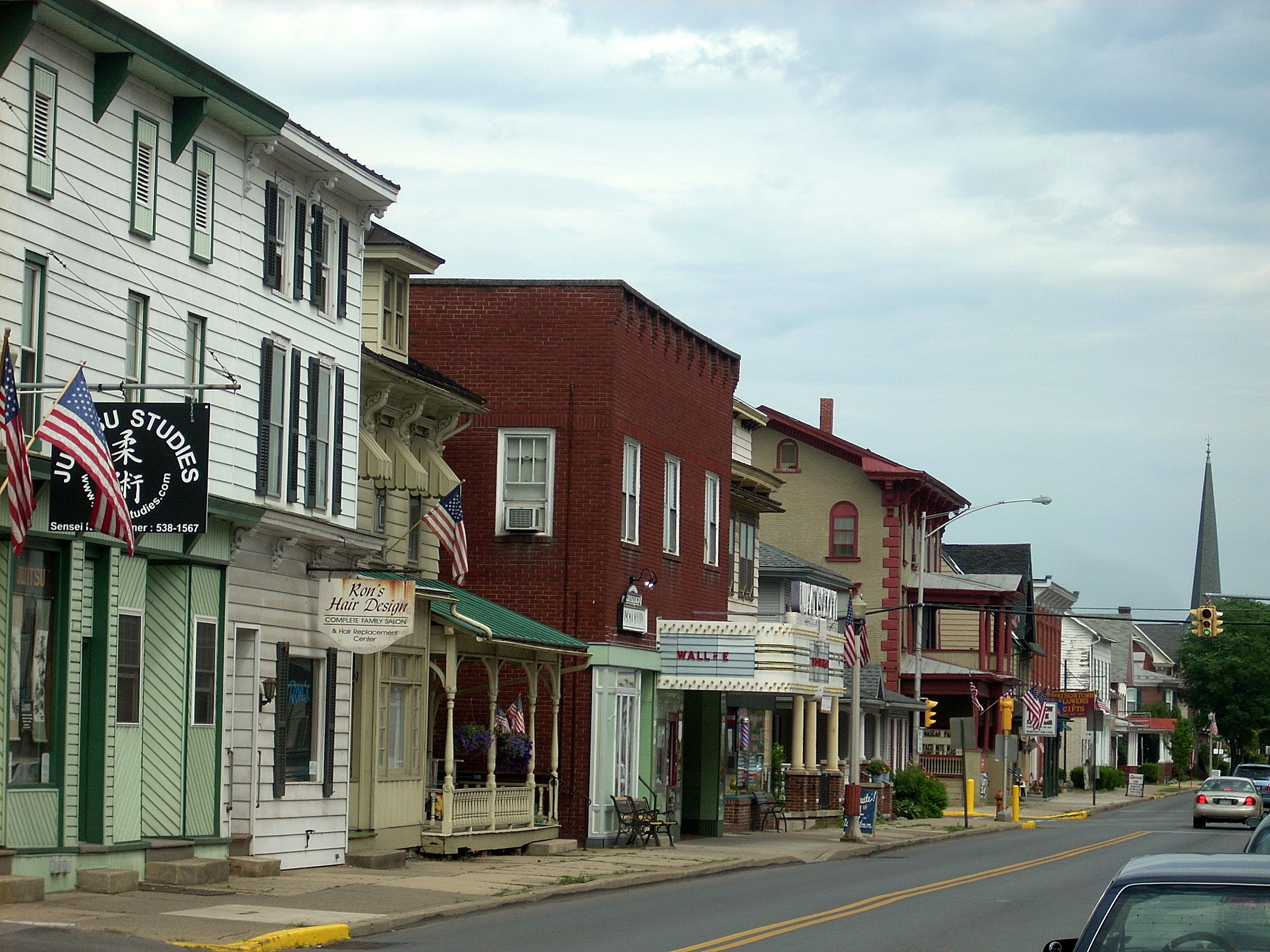 Watsontown, Pennsylvania downtown